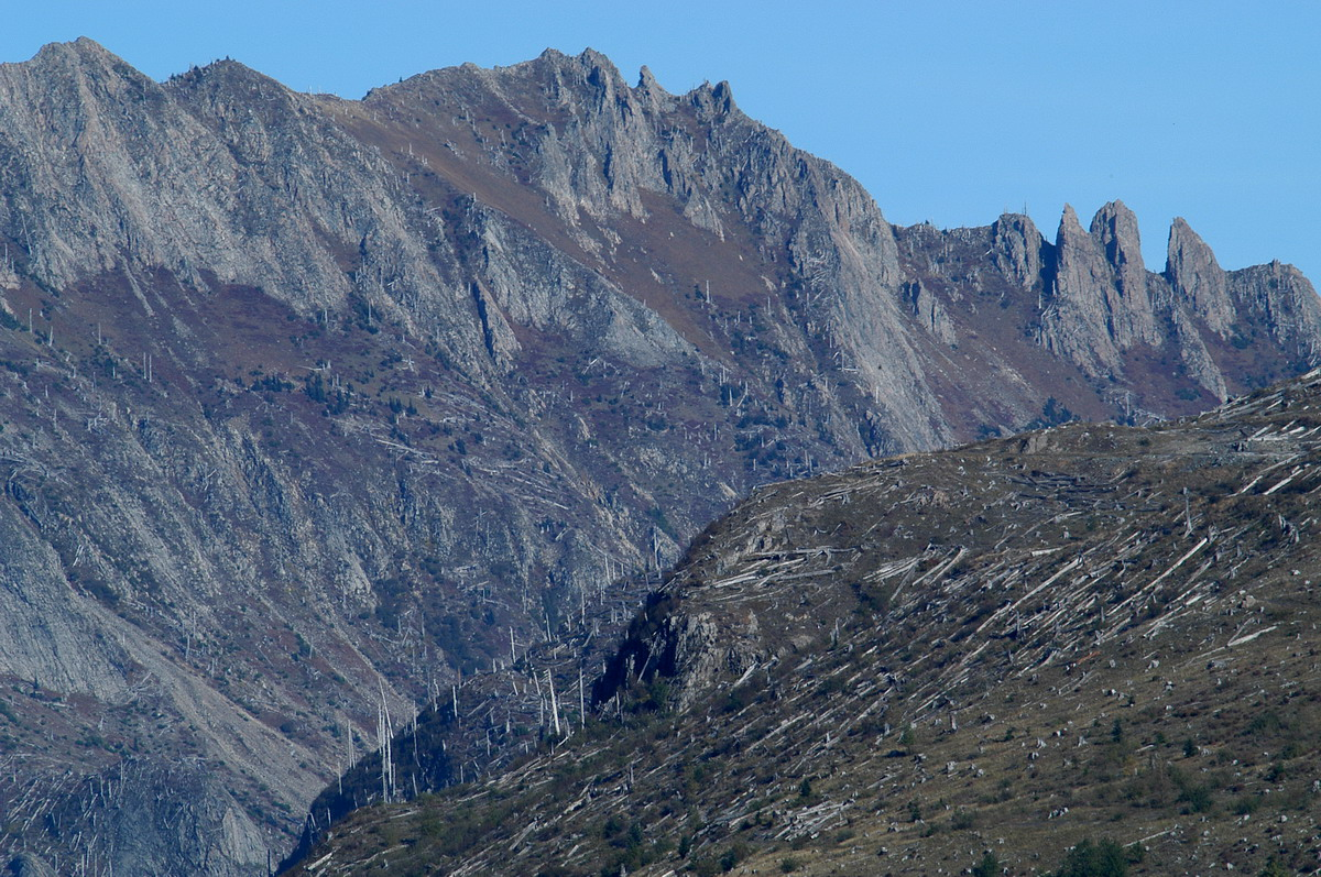 066A MSH institute slide show020